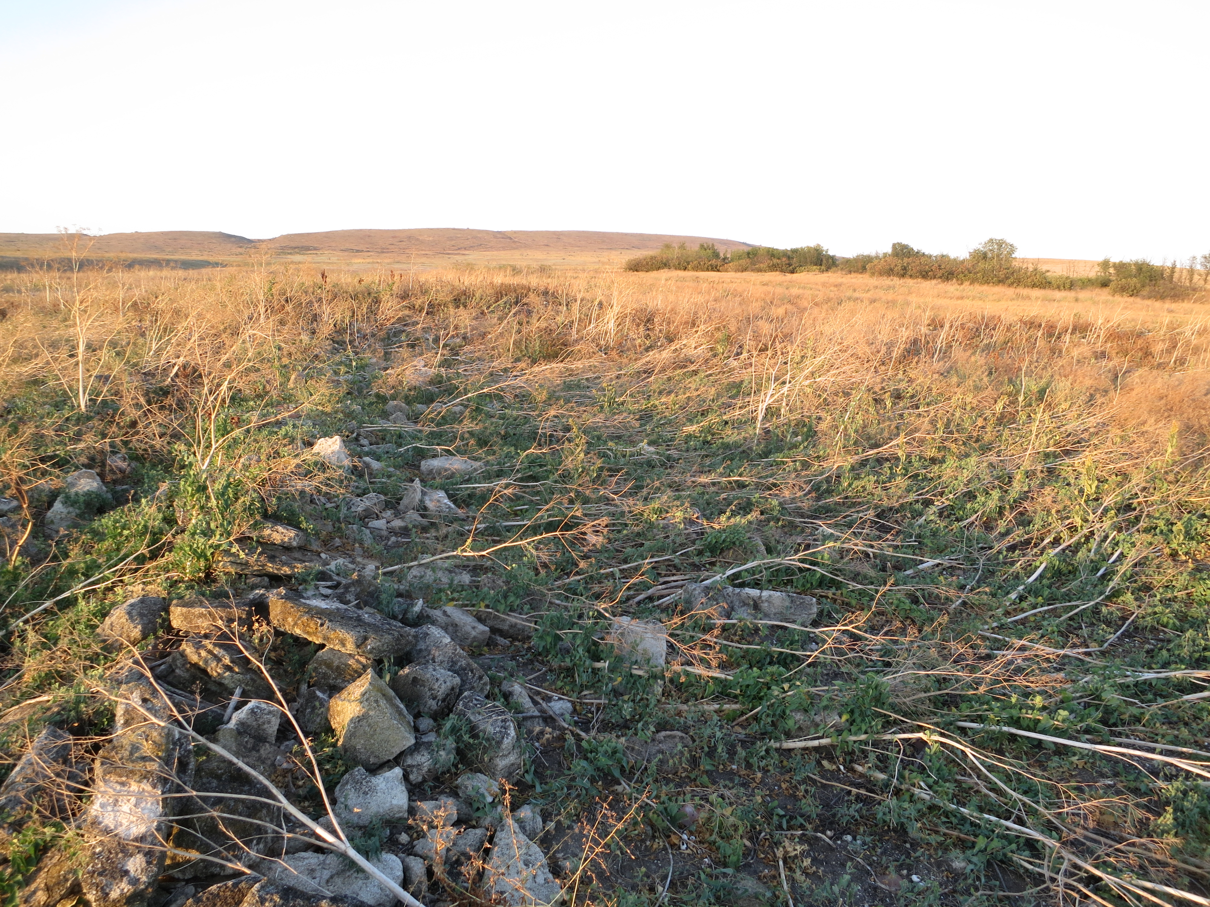 The ruins of the village Maliy Tarhan, Leninsky district, Crimea.